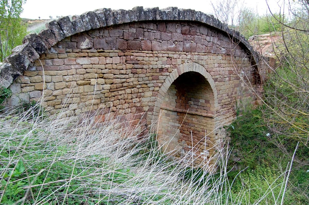 Roman bridge in Cirauqui, Navarra (Spain).